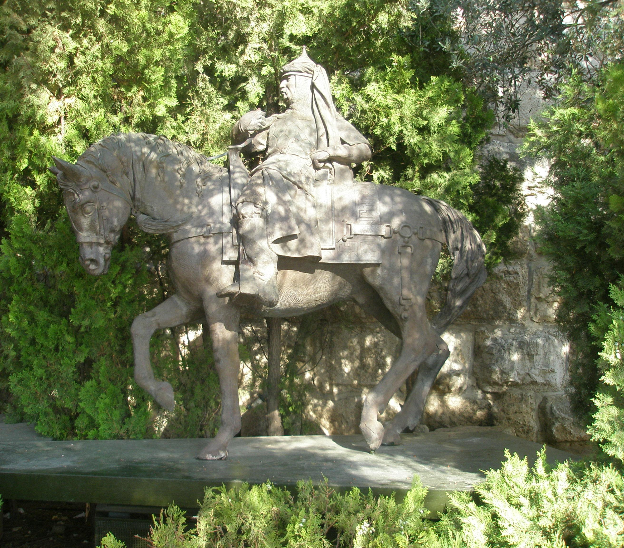 Saladin monument, outside Old City Walls, Jerusalem